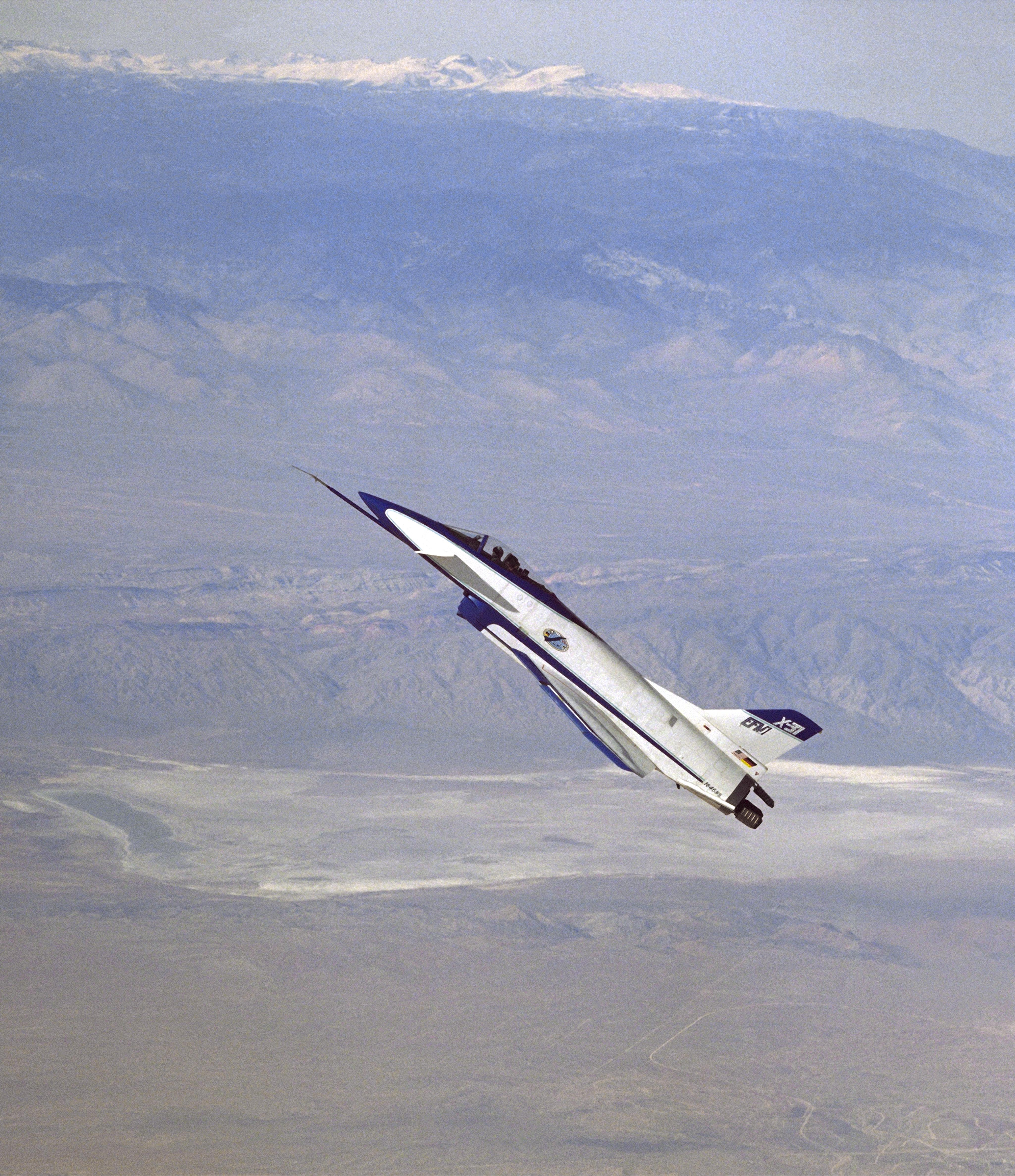 The X-31 aircraft, on a research mission from NASA's Dryden Flight Research Center, Edwards, California, is flying nearly perpendicular to the flight path while performing the Herbst maneuver. Effectively using the entire airframe as a speed brake and using the aircraft's unique thrust vectoring system to maintain control, the pilot rapidly rolls the aircraft to reverse the direction of flight, completing the maneuver with acceleration back to high speed in the opposite direction. This type of turning capability could reduce the turning time of a fighter aircraft by 30 percent.